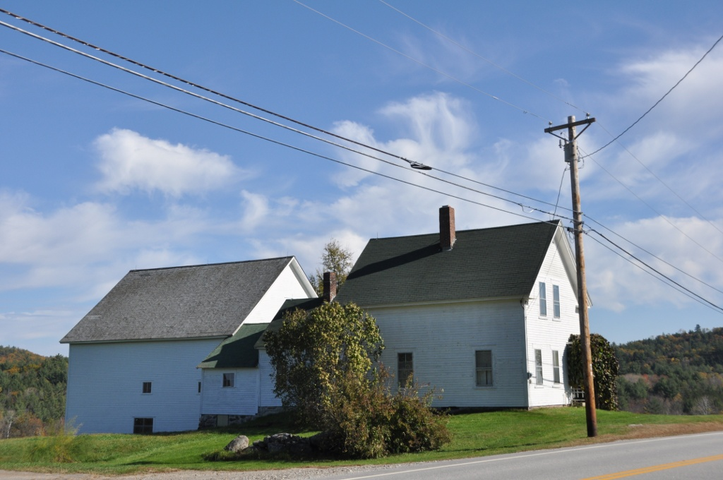 1057 Franklin Highway, part of the Hersey Farms Historic District of Andover, New Hampshire.